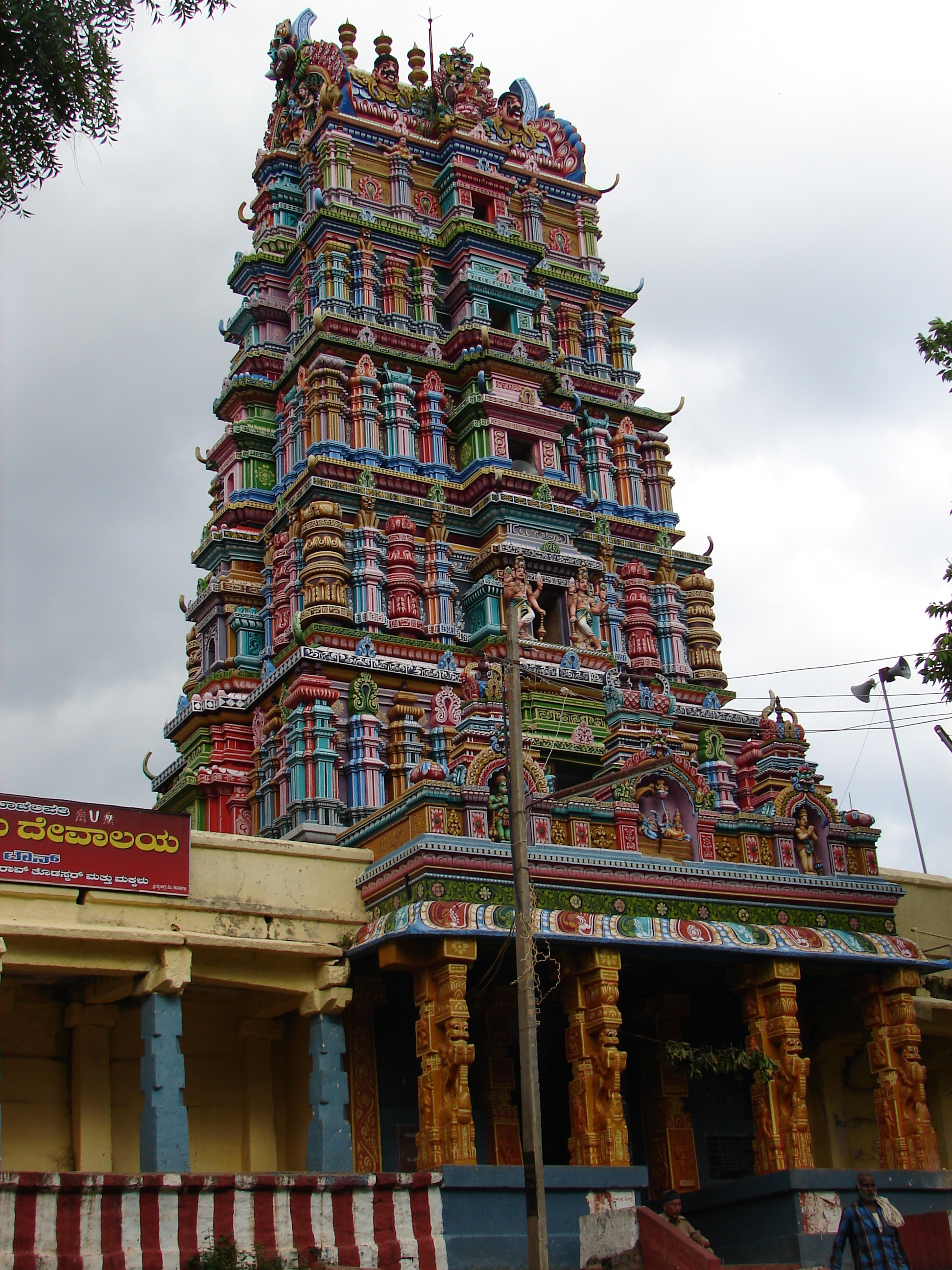 This photograph was taken by me at the Ranganatha Swamy temple in Magadi, Ramanagara district, Karnataka state, India. The temple exhibits architectural features of the Chola Dynasty and the Vijayanagara Empire. The tower over the main entrance is in typical Dravidian style.